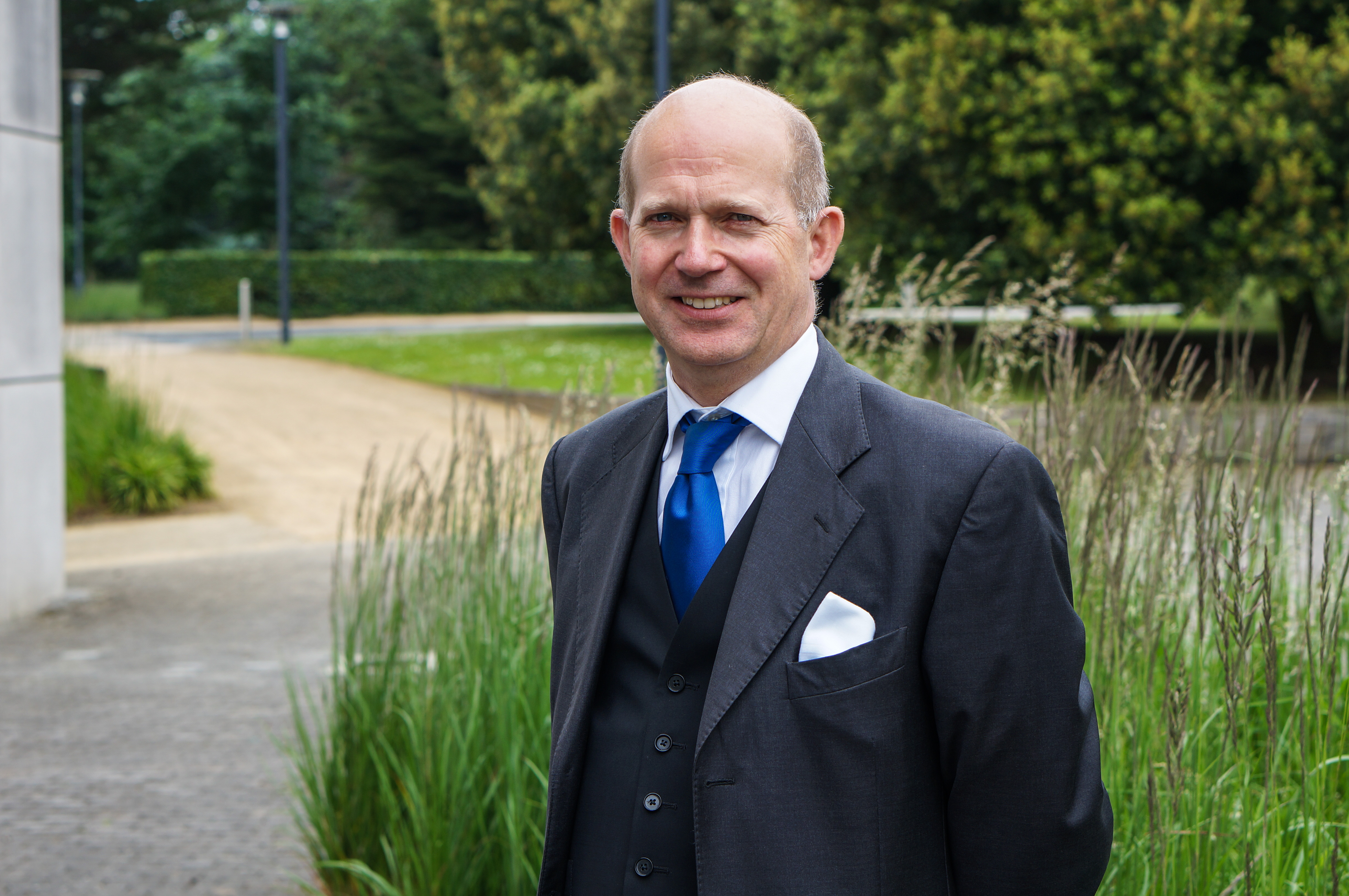 British Ambassador To Ireland